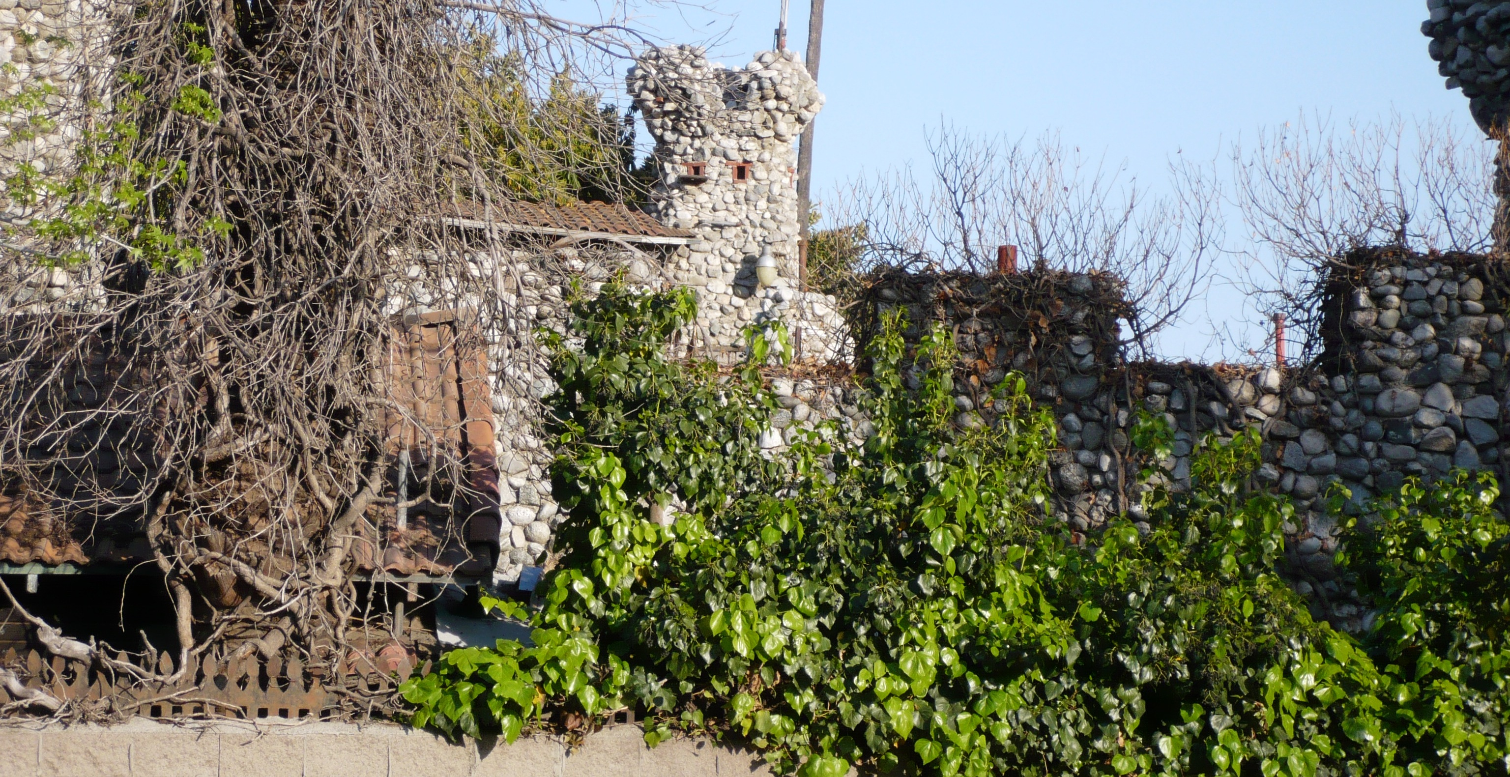 Rubel Castle (Rubelia), Glendora, California, USA. Wide view.